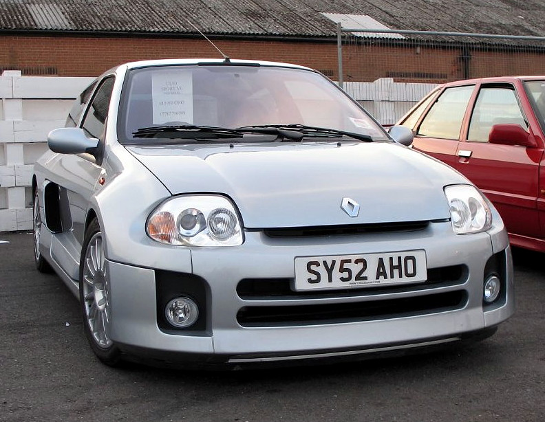 Renault Clio V6 phase I.IMG_0187